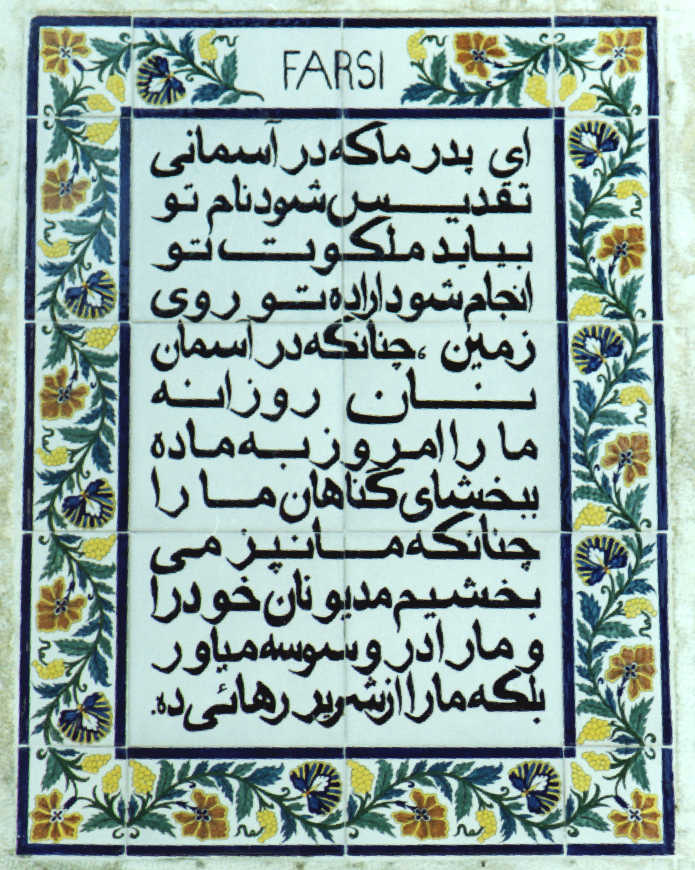 Lord's Prayer in Persian(Farsi) in the Convent of Pater Noster in Jerusalem